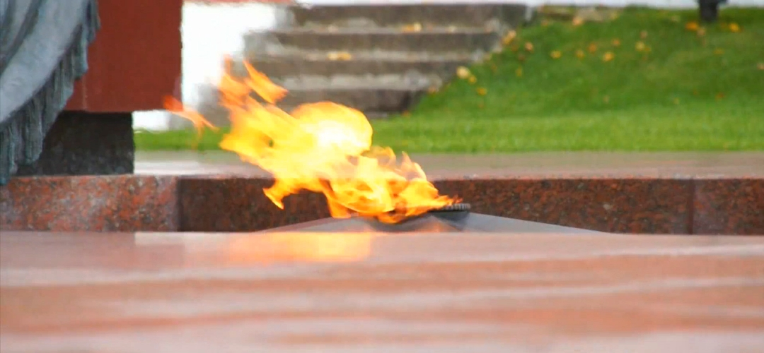 Eternal flame is blazing bright at the Tomb of the Unknown Soldier (Moscow), on October 12, 2011. The place has been visited by members of Boevoe Bratstvo, a Russian veterans organization, and Richard L. DeNoyer, the VFW Commander.